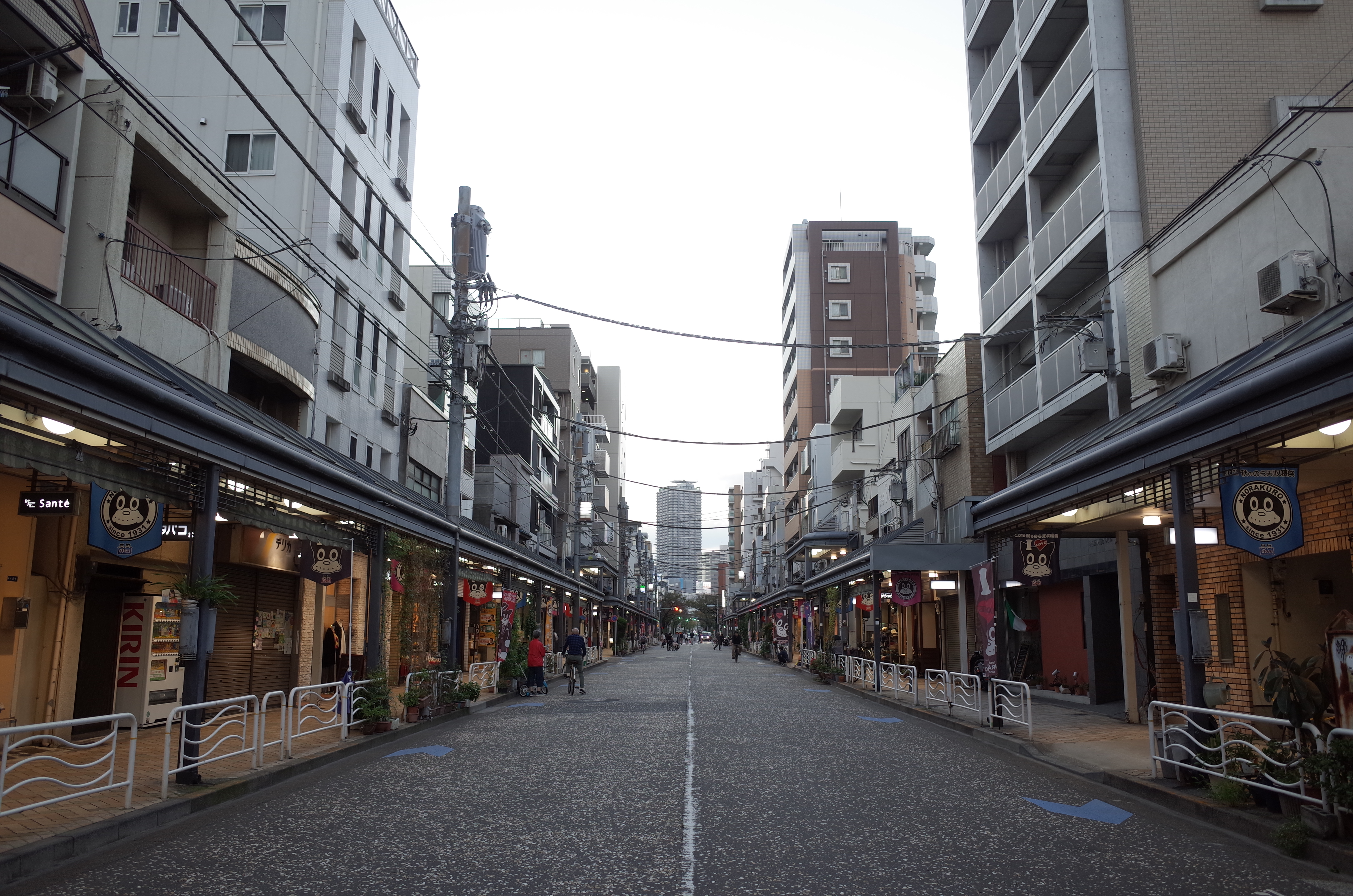 Shopping street in Koto ward, Tokyo